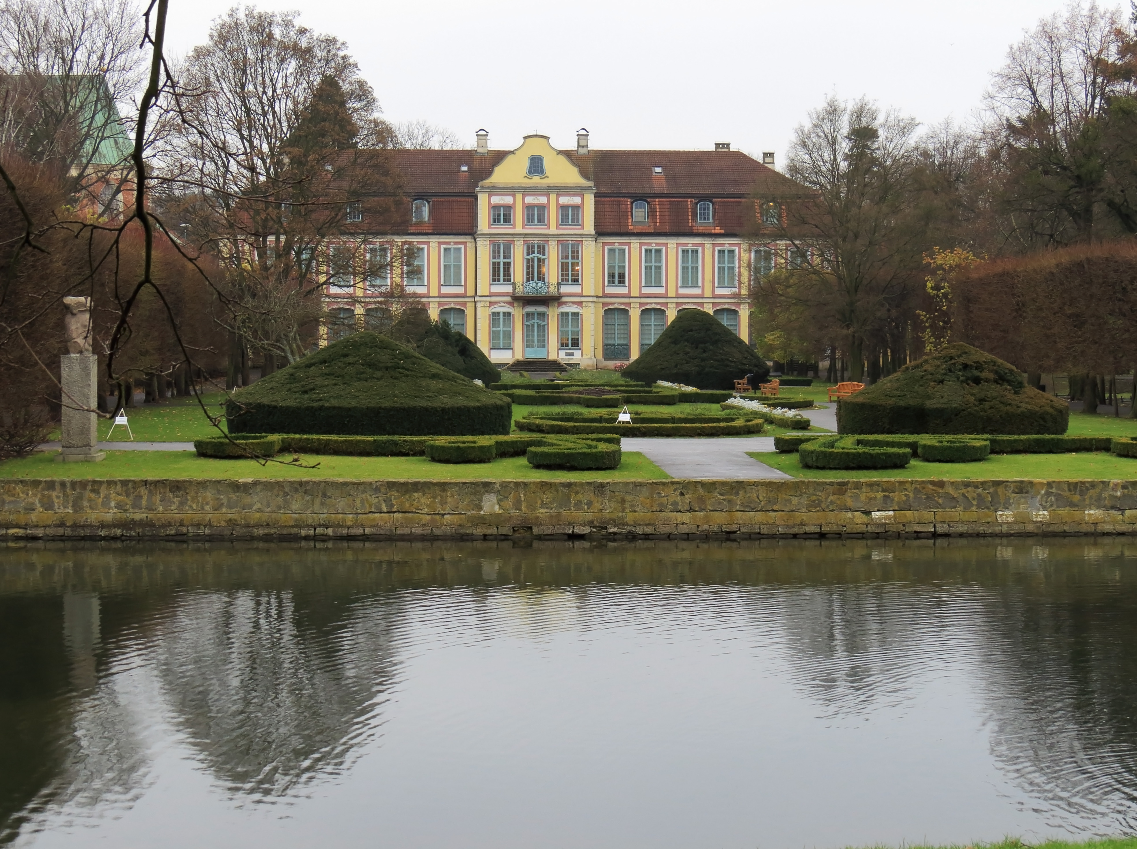 Oliwa Palace in Gdańsk